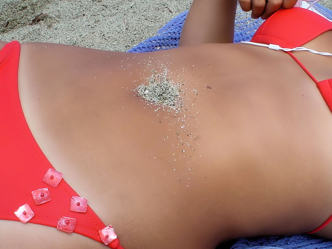 Navel filled with sand.